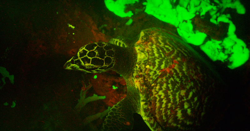 Image displaying fluorescence in a hawksbill sea turtle